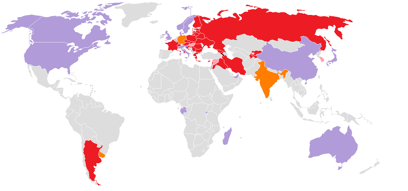 The highest position of an official that have visited the Armenian Genocide Memorial in Yerevan the president (the Pope in case of Vatican) the prime minister the speaker a minister